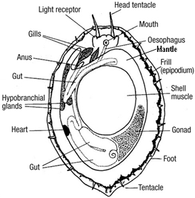 Drawing of anatomy of Haliotis cracherodii.